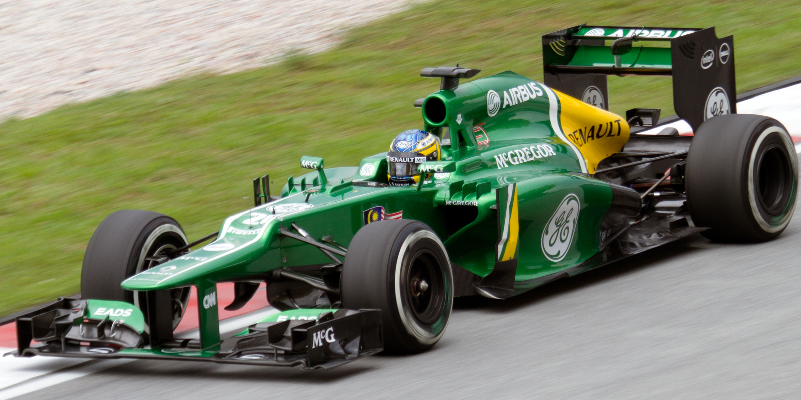 Formula One 2013 Rd.2 Malaysian GP: Charles Pic (Caterham) during the second practice session on Friday.